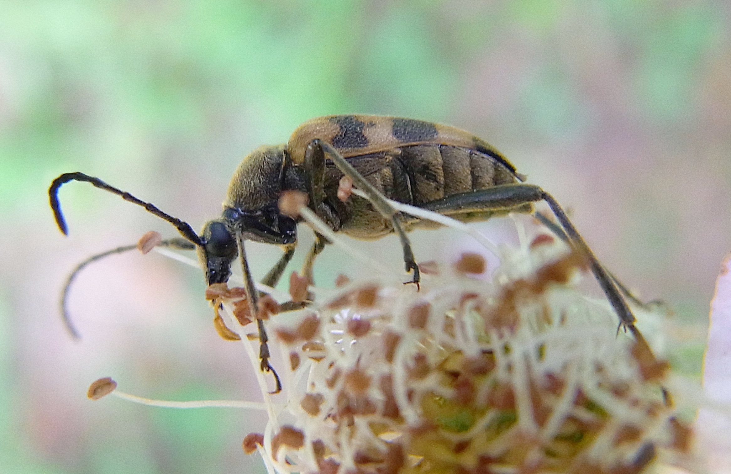 Pachytodes cerambyciformis from France near Le-Puy-en-Vallay at 2011-07-04